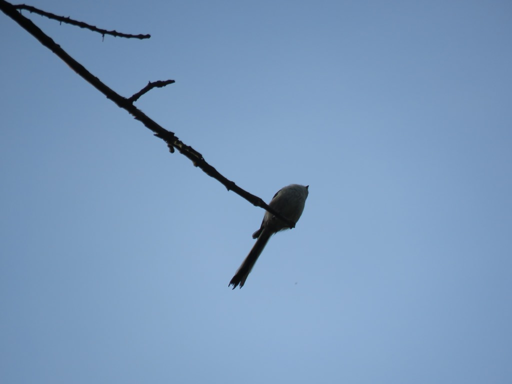 Long-tailed tit, Дугорепа сеница, Aegithalos caudatus